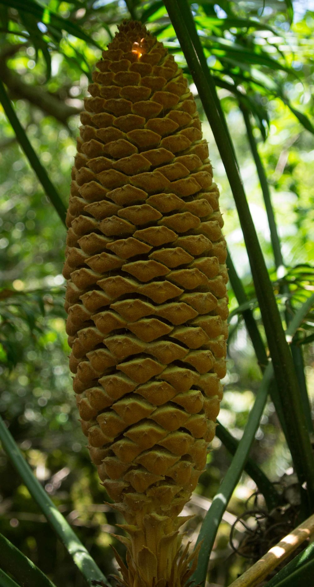 Megasporngia of C. micronesica